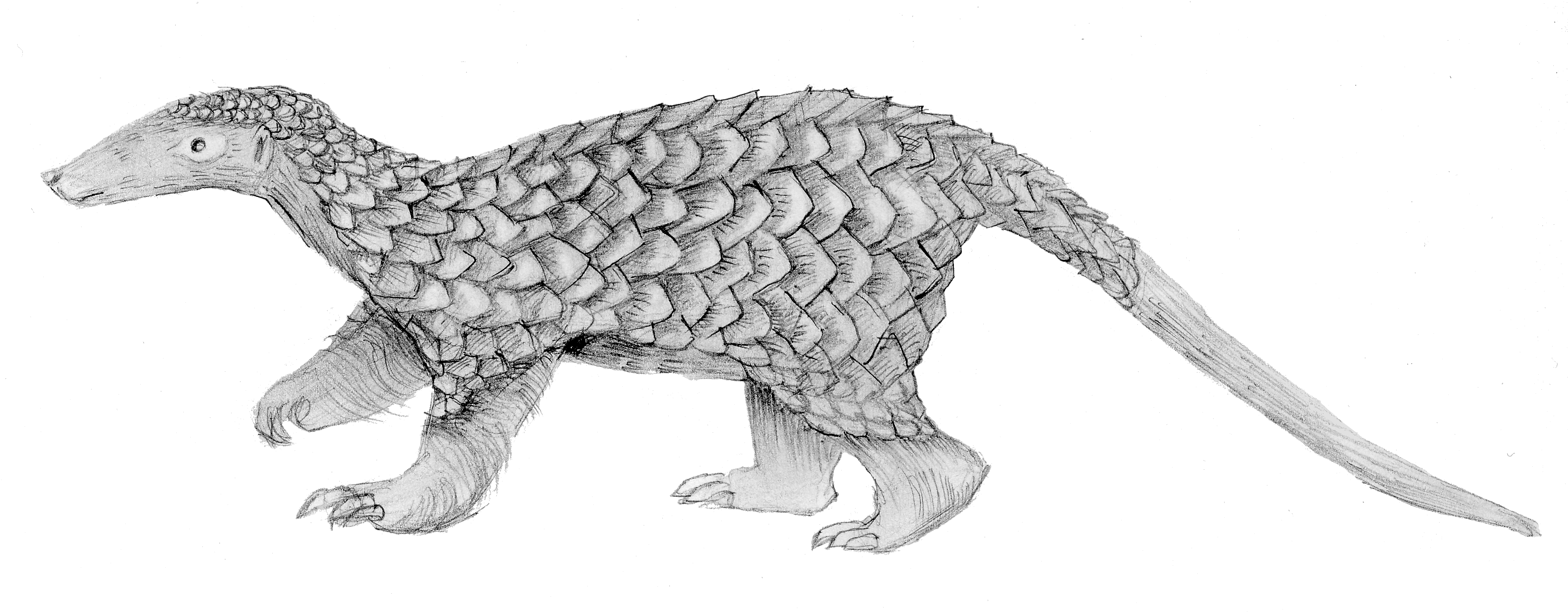 Reconstruction of Eomanis, redrawn after: Gerhard Storch: Eomanis waldi, ein Schuppentier aus dem Mittel-Eozän der "Grube Messel" bei Darmstadt (Mammalia: Pholidota). Senckenbergiana lethaea 59 (4/6), 1978, pp. 503–529 (p. 529)